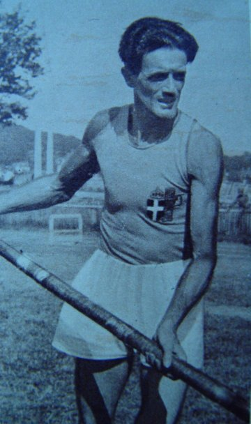 Danilo Innocenti in a shot in Italy in 1930s